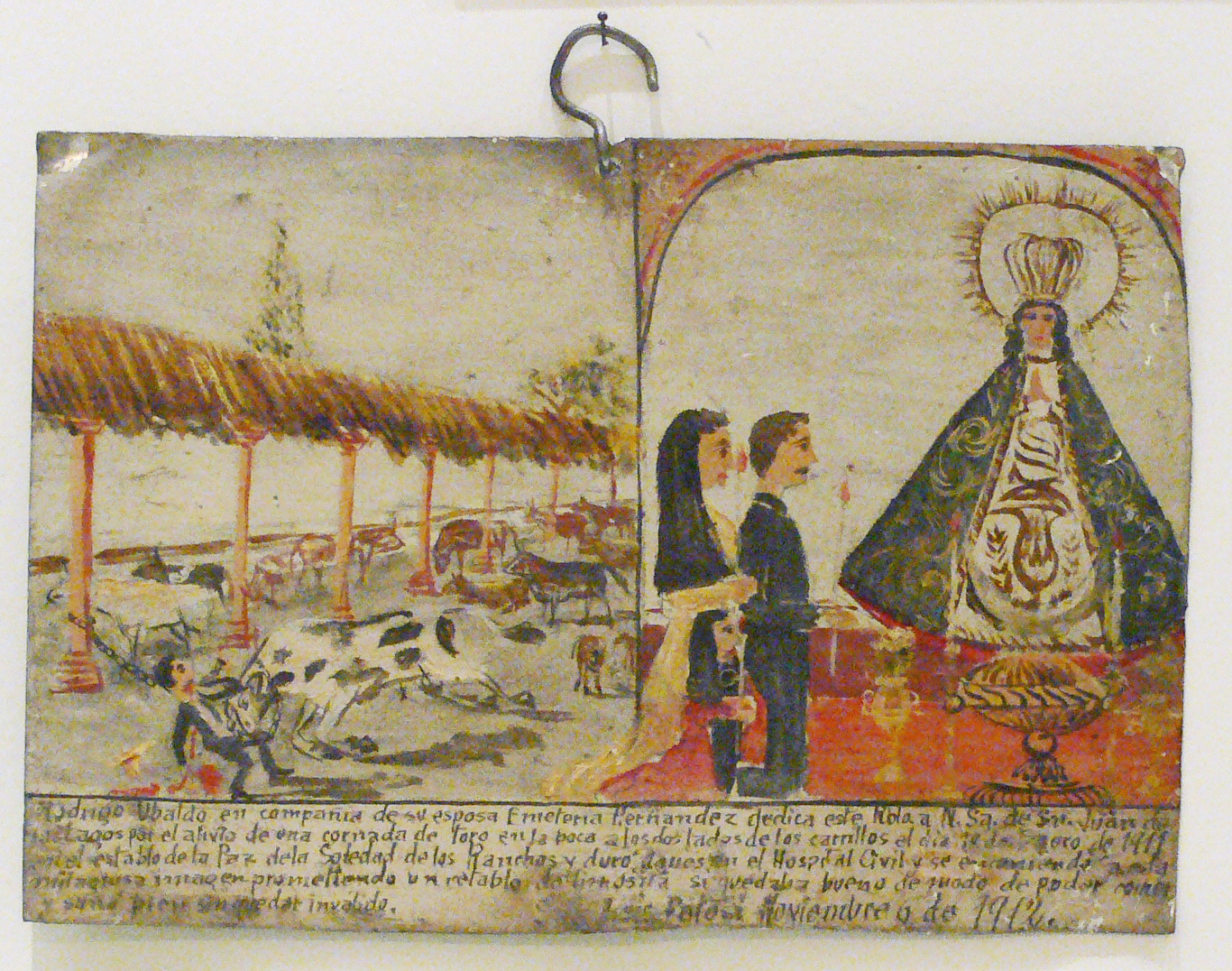 Tropenmuseum Amsterdam Votive painting for Our Lady of San Juan de los Lagos, Mexico